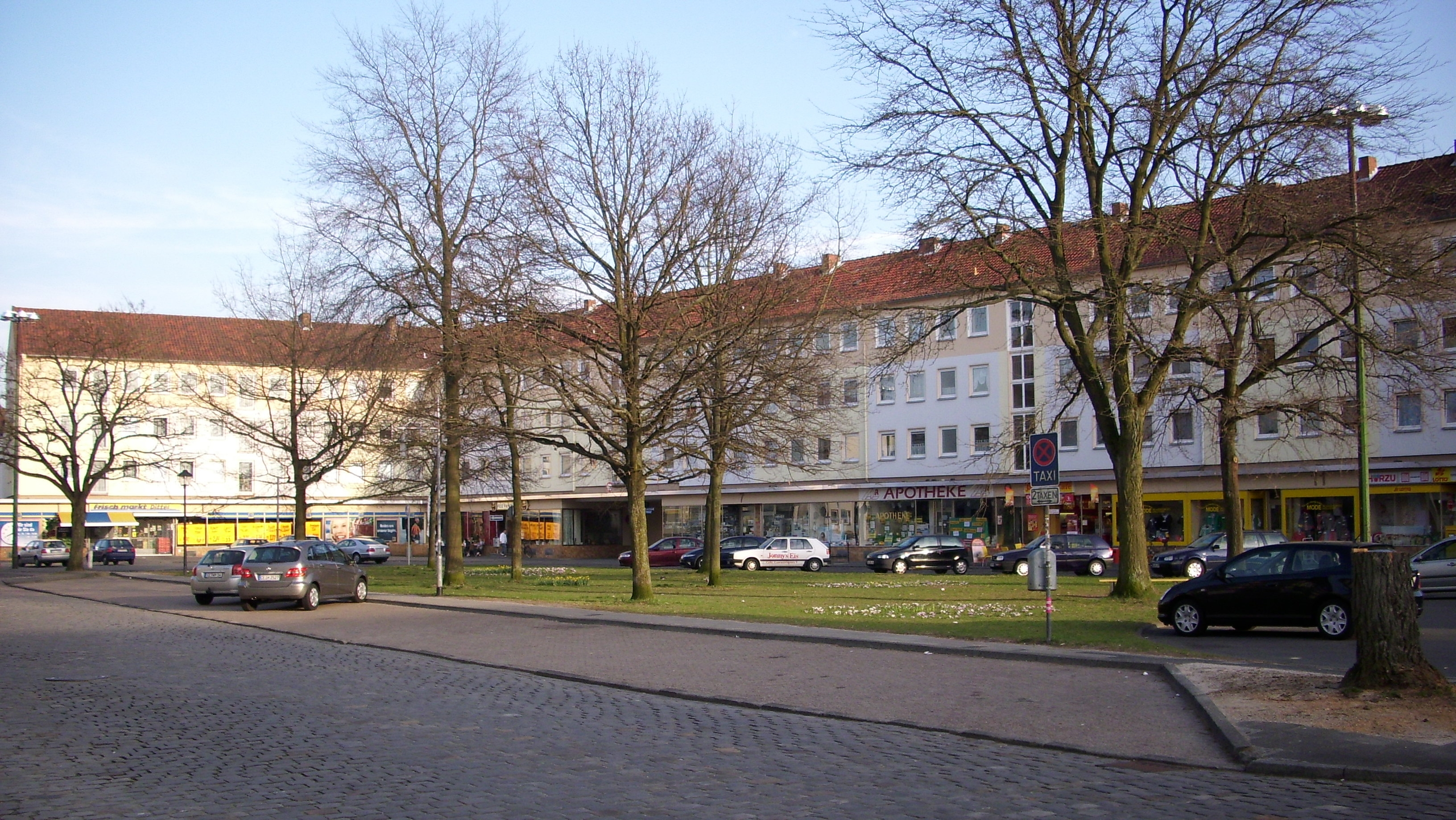 Lauensteinplatz in Celle, Lower Saxony, Germany